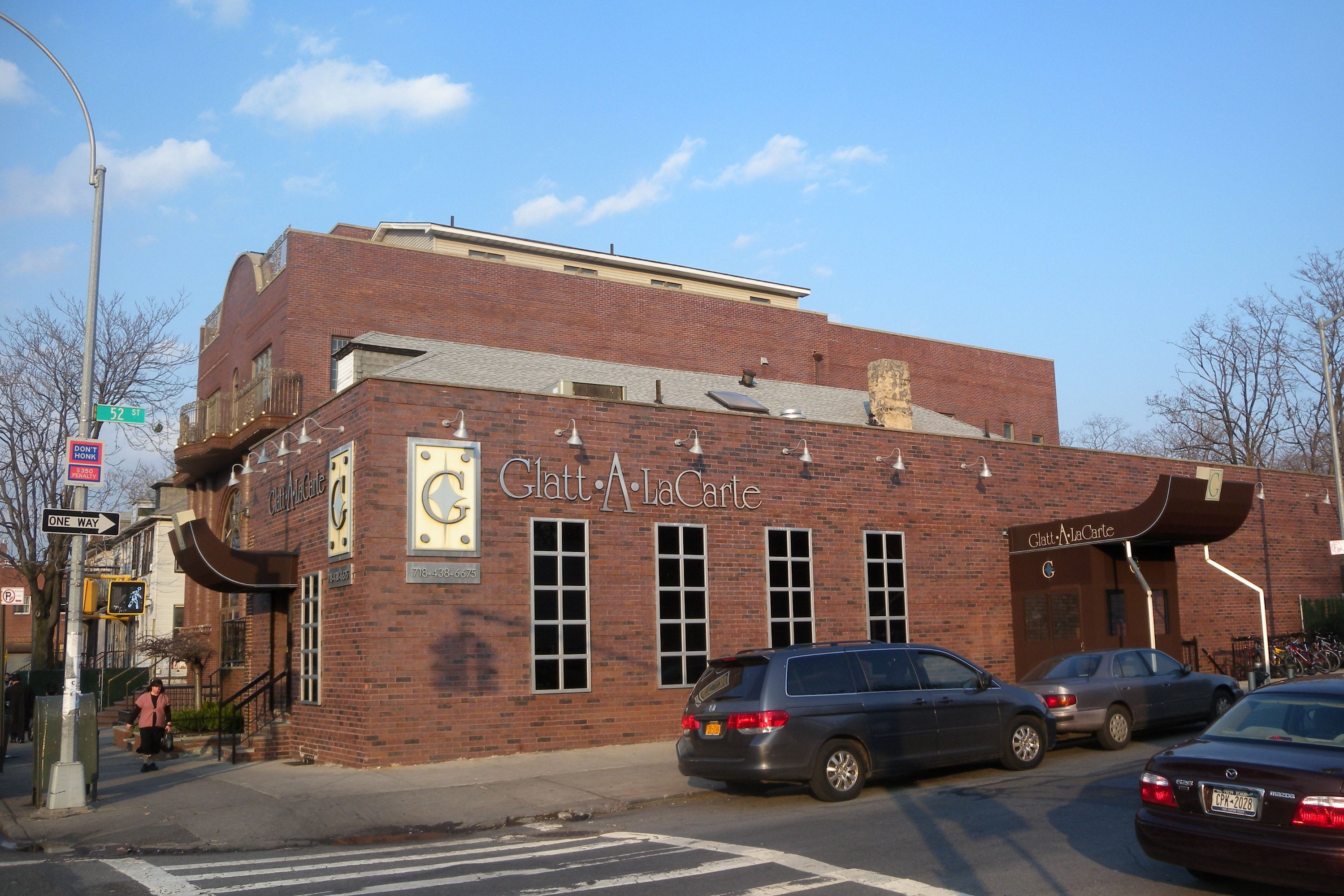 Looking northeast at kosher restaurant on a sunny late afternoon.